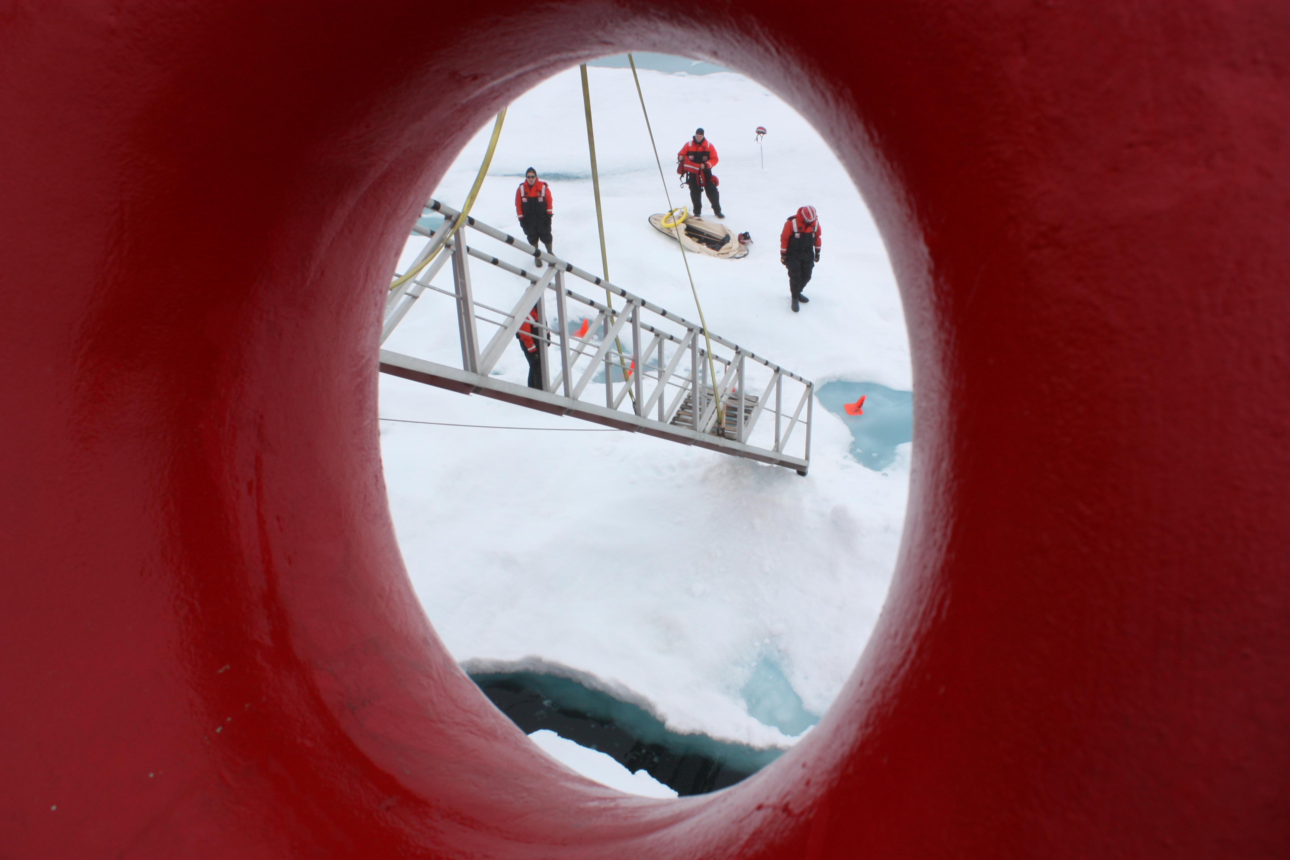 Scientists on the sea ice in the Chukchi Sea off the north coast of Alaska disperse equipment on July 4, 2010, as they prepare to collect data on and below the ice.